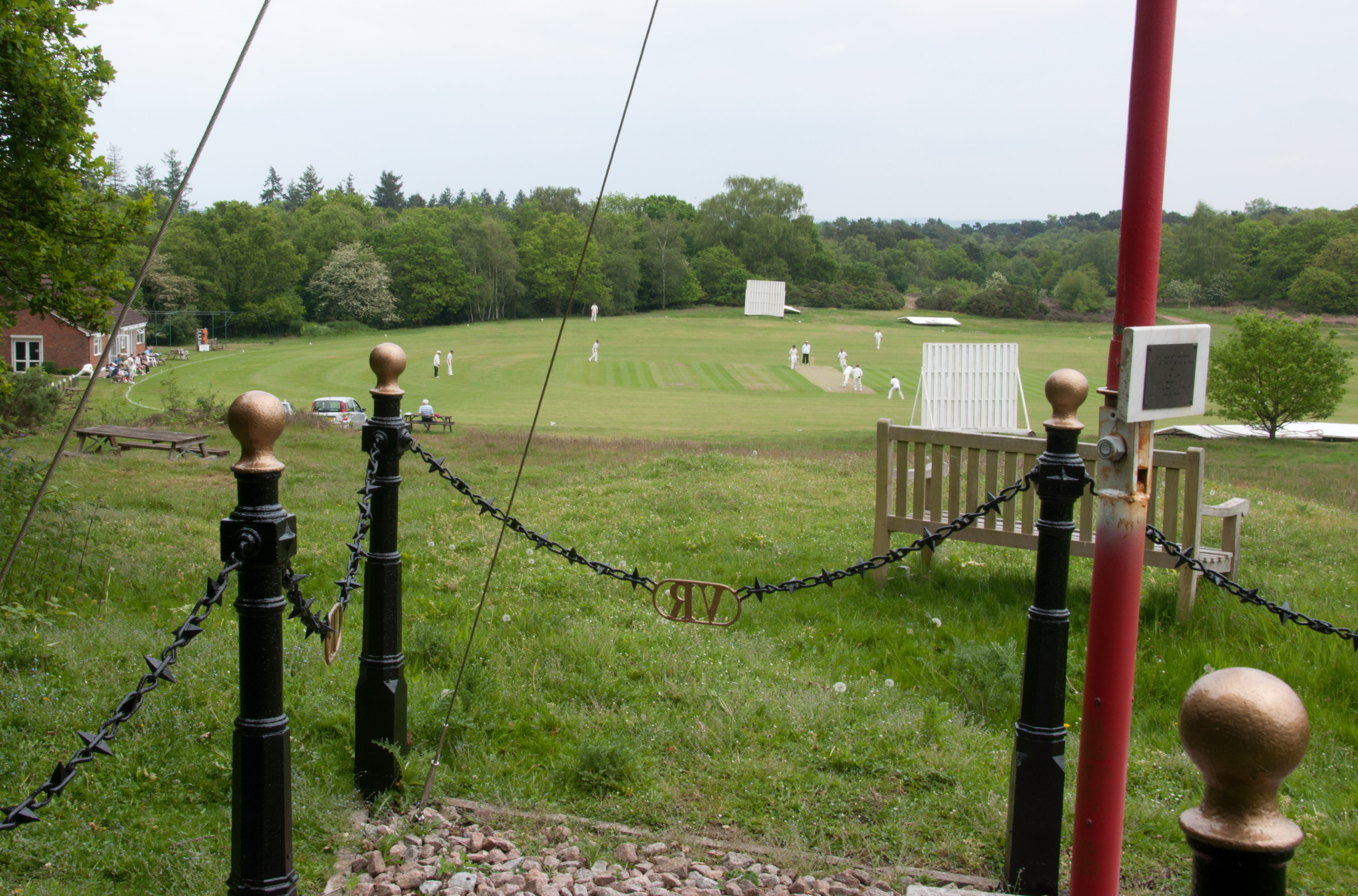 Queen Victoria 7 July 1858. The flagpole marks the site where she was. Cricket was already taking place by then